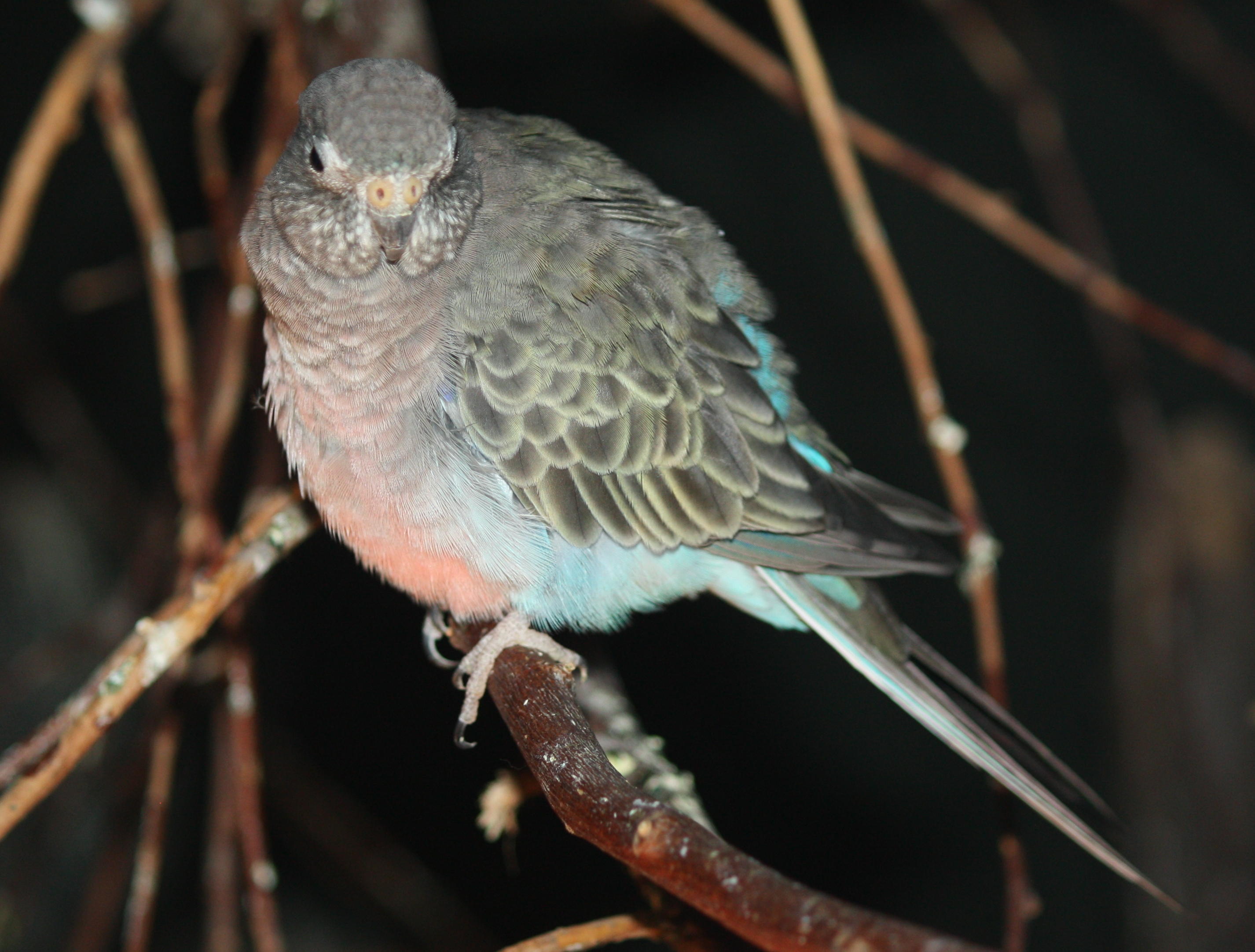 Bourke's Parrot Neopsephotus bourkii at Cincinnati Zoo